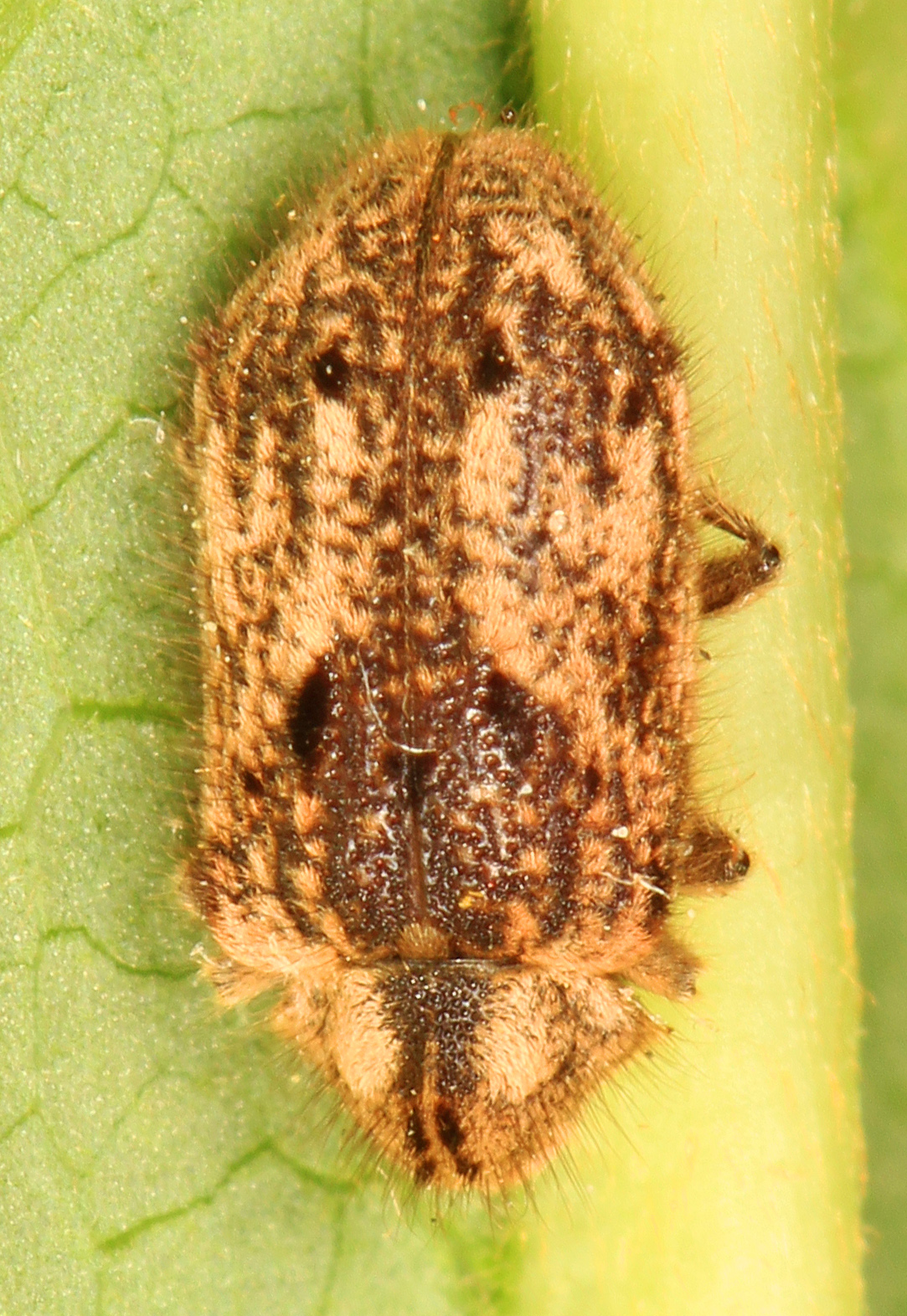 Death-watch Beetle - Trichodesma species, Leesylvania State Park, Woodbridge, Virginia.